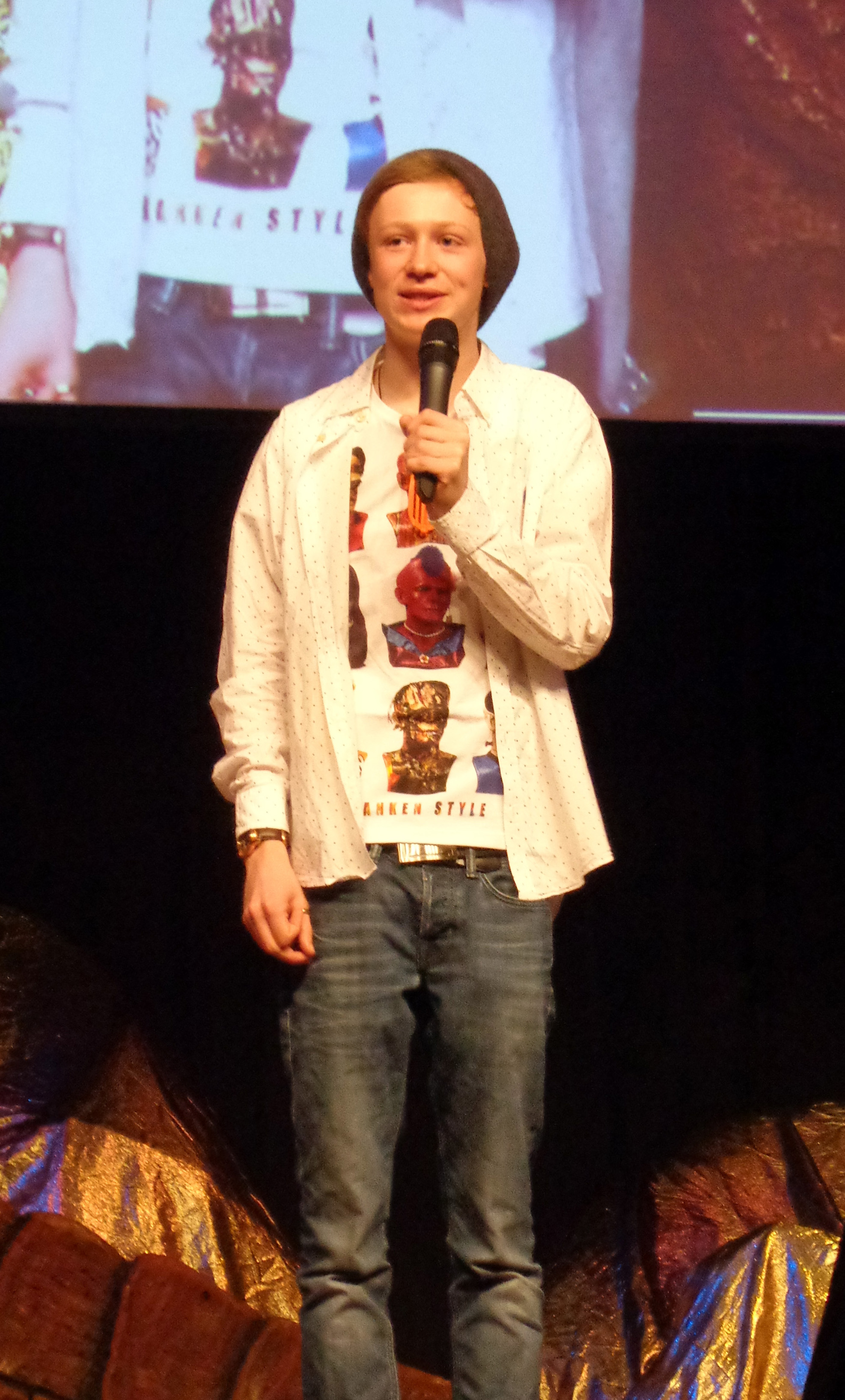 John Bell on April 5, 2015 at the Hobbitcon III convention in Bonn, Germany. Photo by Alexandr Polnikov